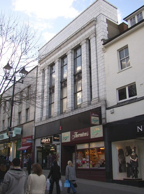 Shops, Union Terrace, Aldershot The foundation stone is dated 1931 – a 20C version of Classical style.